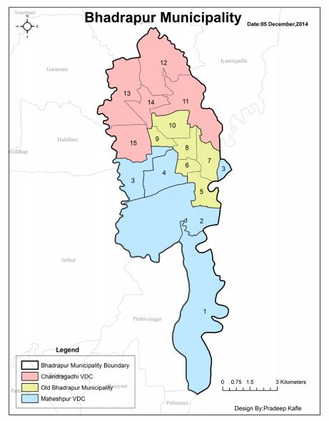 This map shows the Bhadrapur Municipality with ward no. Pink color shows the Chandragadhi VDC and blue color shows the Maheshpur VDC which were consolidated within Bhadrapur Municipality. This screenshot was captured from google maps.